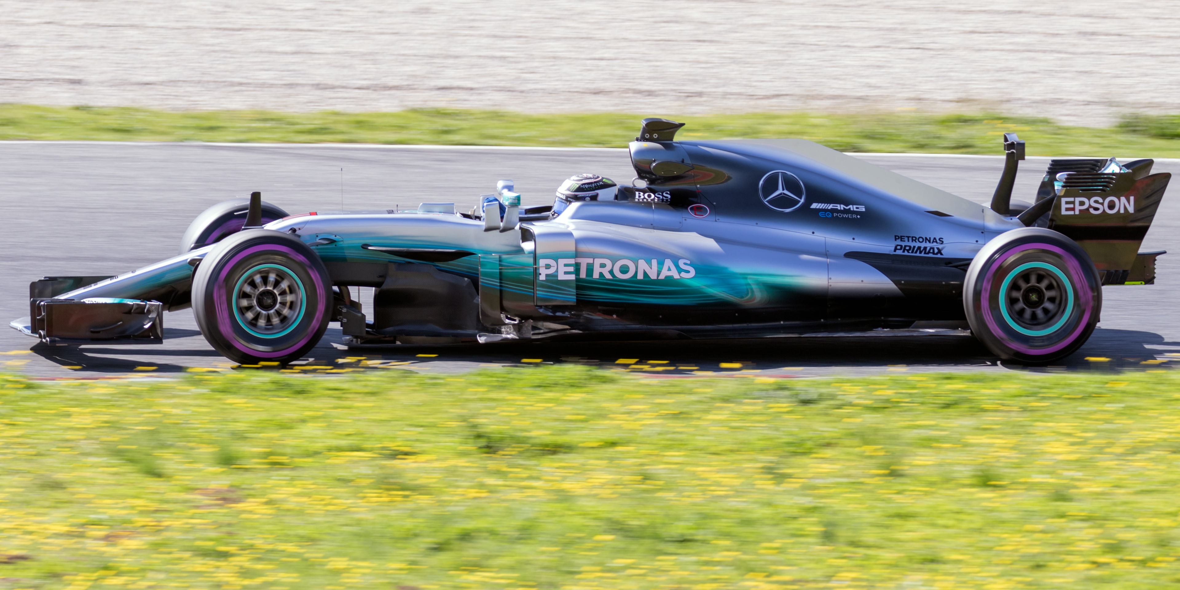 Formula One 2017 Catalonia test (27 February-2 March): Valtteri Bottas (Mercedes)